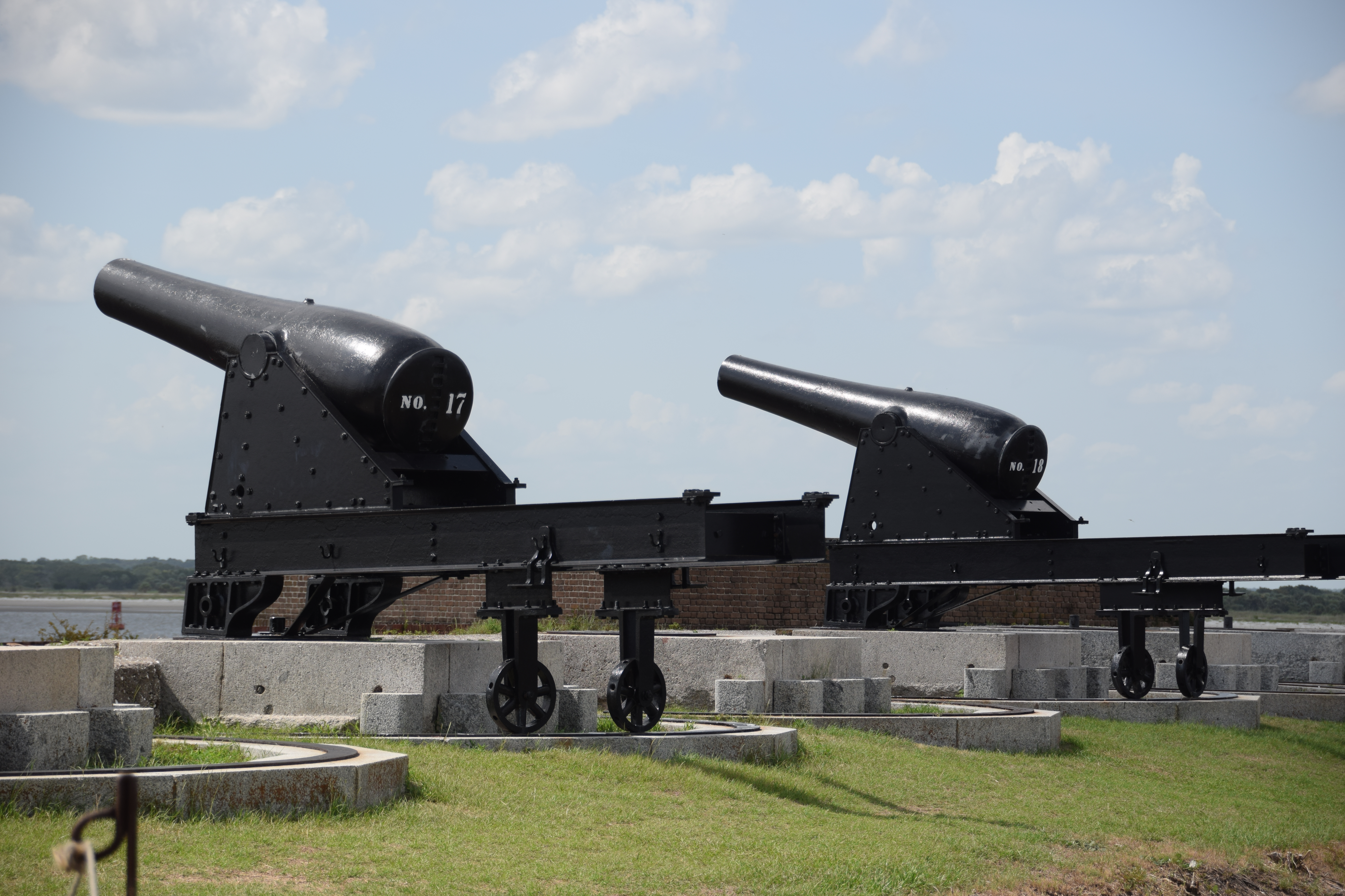 Fort Clinch in Nassau Coumty, Florida, US